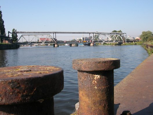 Railway bridge over Parnica as seen from Łasztownia island. Szczecin, Poland